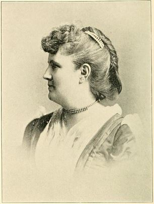 Mrs John Charles Tarsney